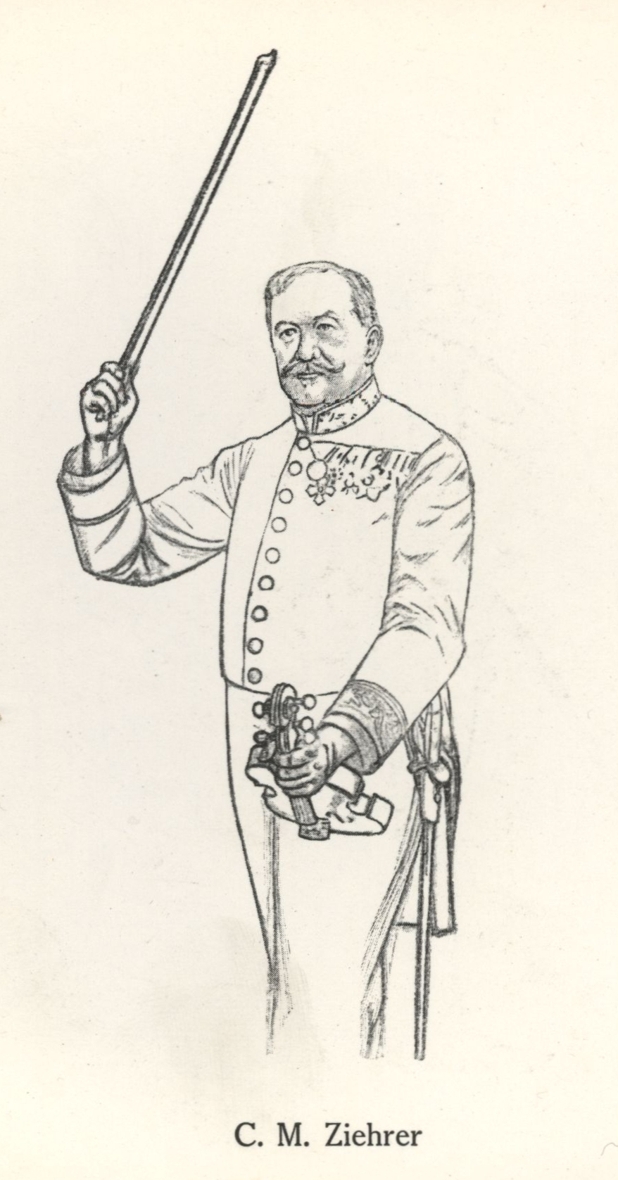 Carl Michael Ziehrer (1843–1922), Austrian composer and conductor; drawing by Hans Schliessmann